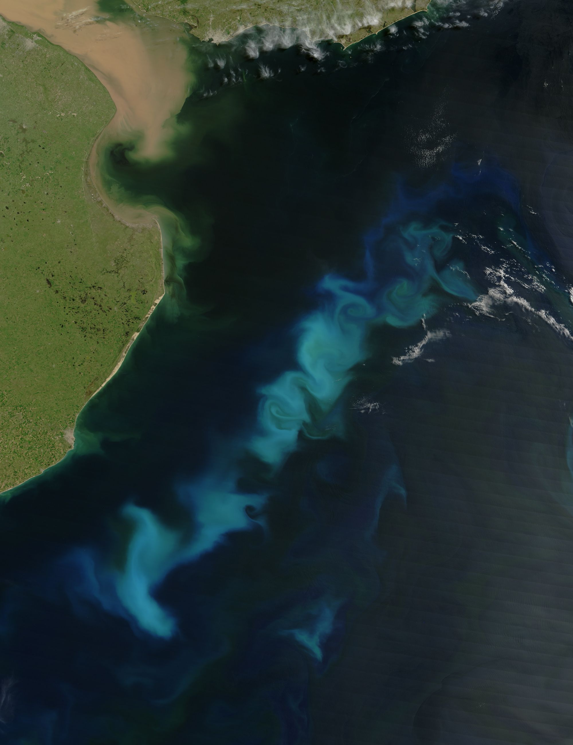 Phytoplankton bloom in the South Atlantic Ocean, off the coast of Argentina captured by the Moderate Resolution Imaging Spectroradiometer (MODIS) on NASA’s Aqua satellite. (Probably Coccoliths)